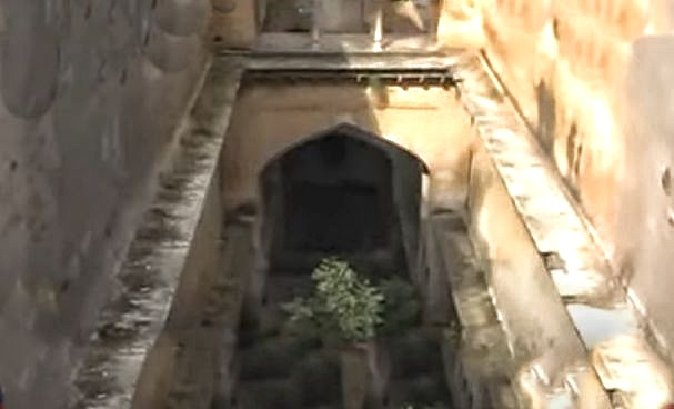 Baori at Taseeng Fort Behror in dilapidated condition.